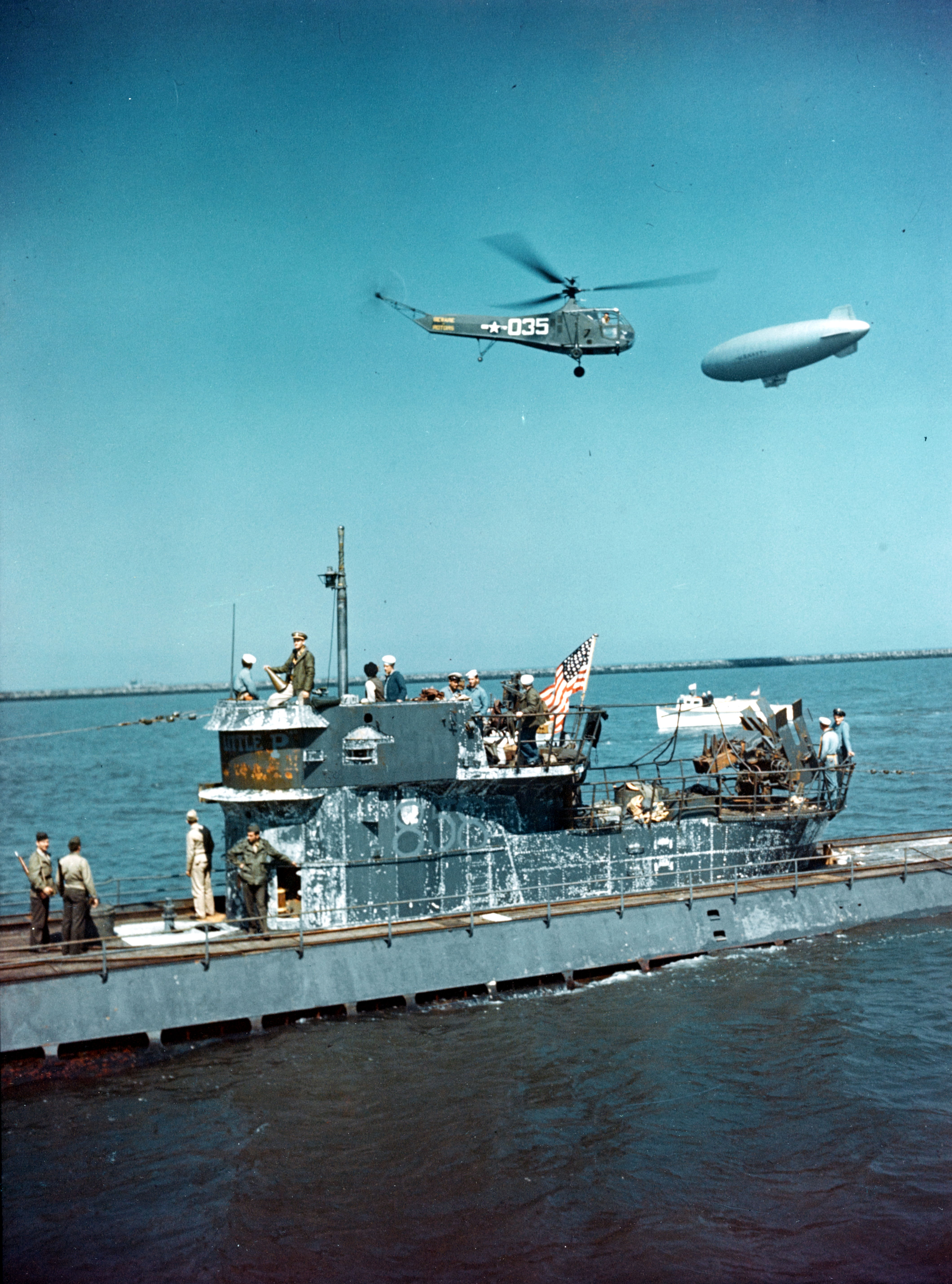 Title: U-858 Caption: German Submarine, Type IXC is brought to anchor at Cape Henlopen, Del. In May 1945, after being surrendered at sea with mega phone on her conning tower is LCDR. Willard D. Michael, Officer in charge. Note Sikorski HNS-I Helicopter and blimp overhead